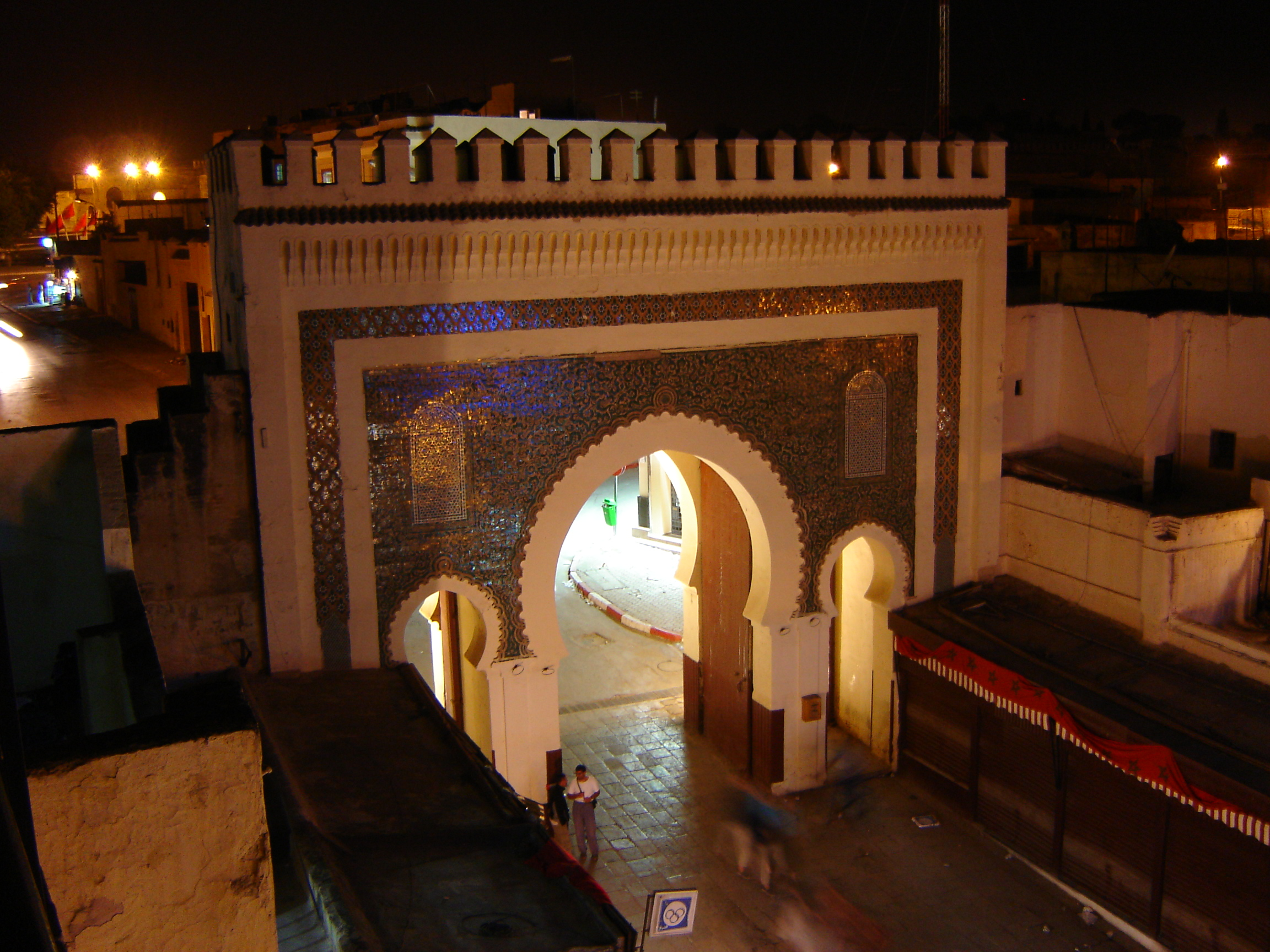 Bab-el-Mansour door by night